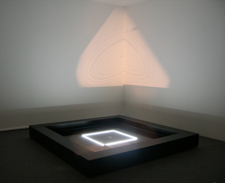 delle distanze dalla rappresentazione